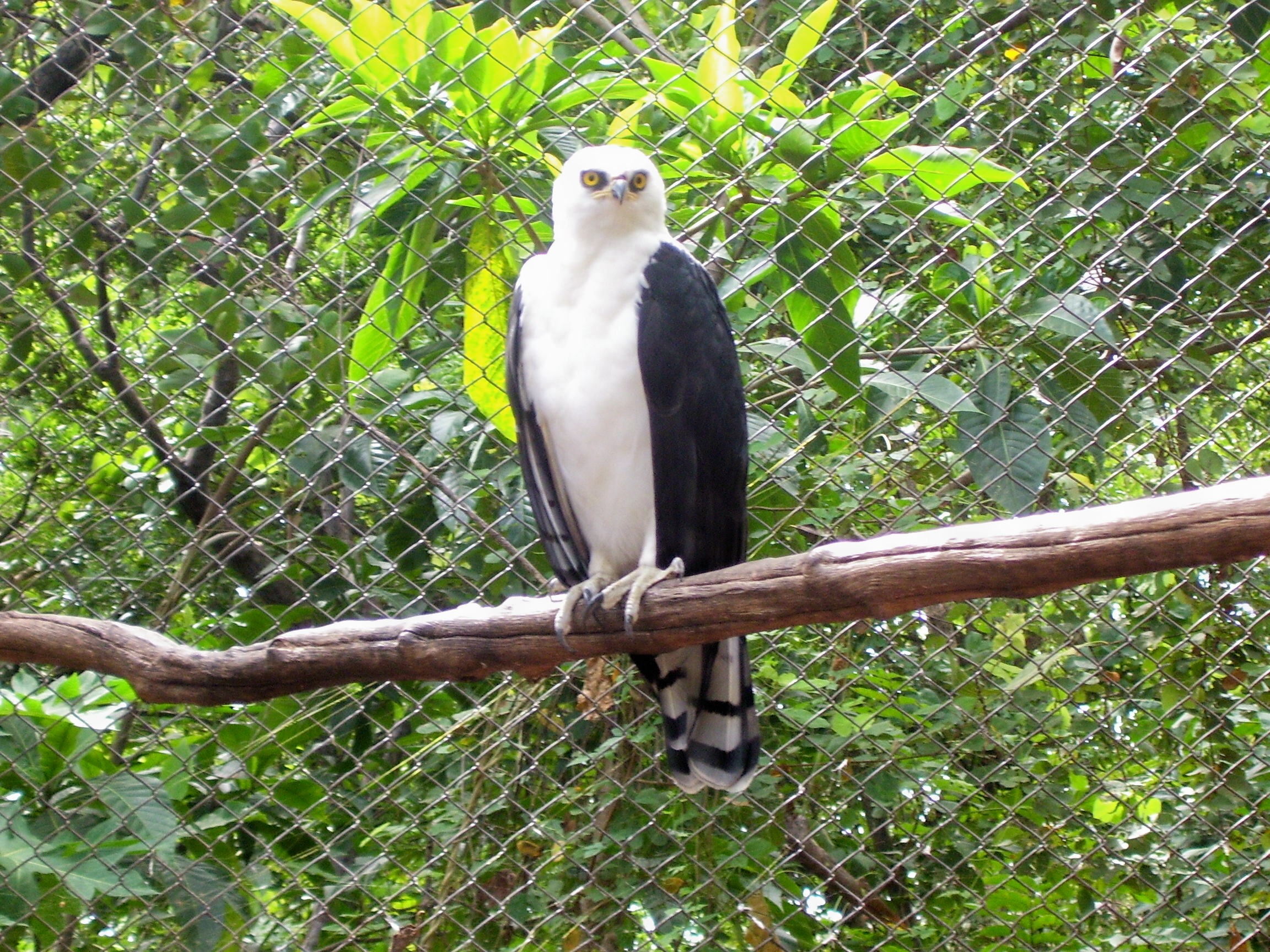 Black-and-White Hawk-eagle (Spizastur melanoleucus), in the zoo of Federal University of Mato Grosso, Cuiabá, Brazil.